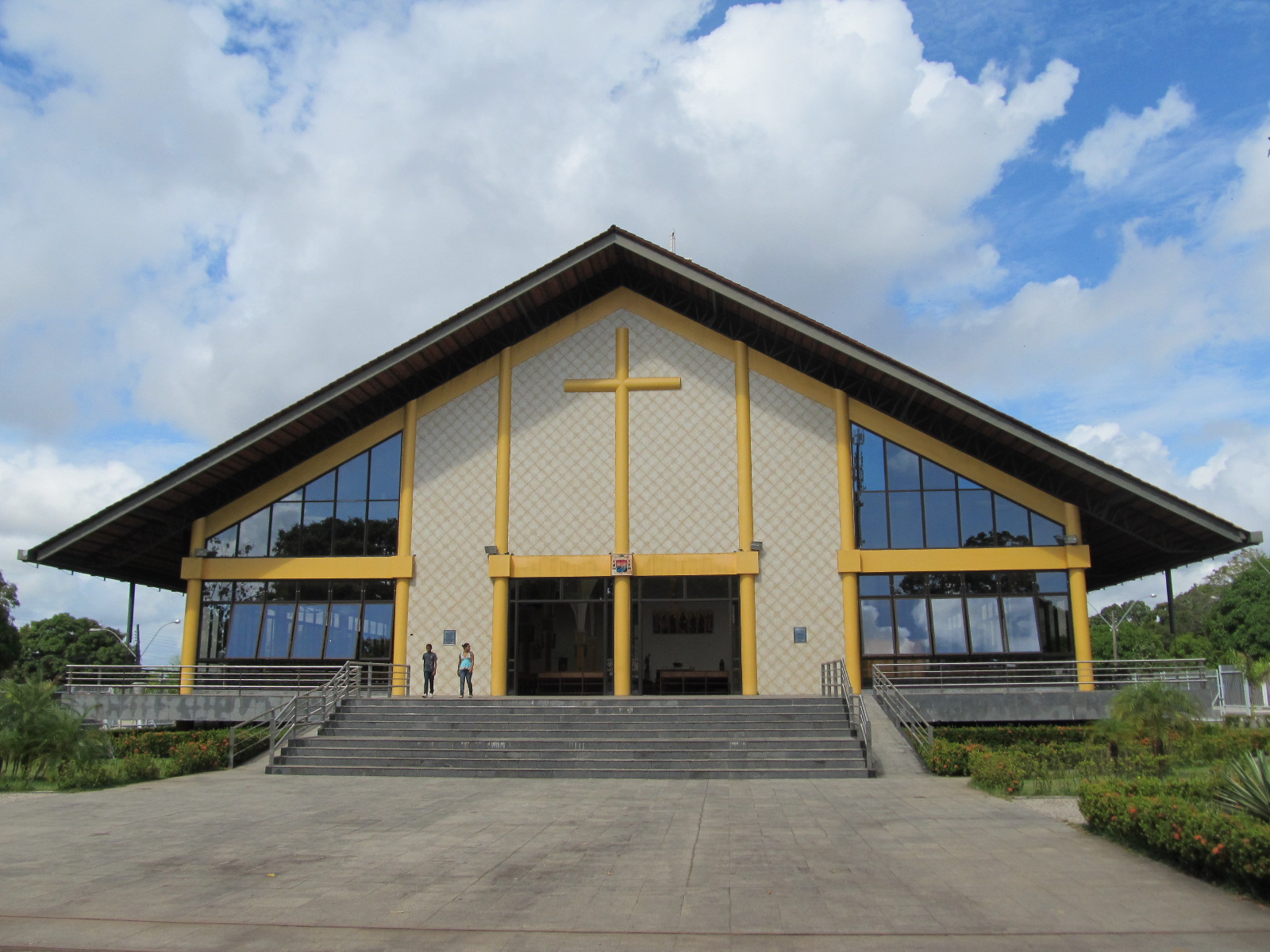 Saint Joseph Cathedral, Macapa city, Brazil (1)